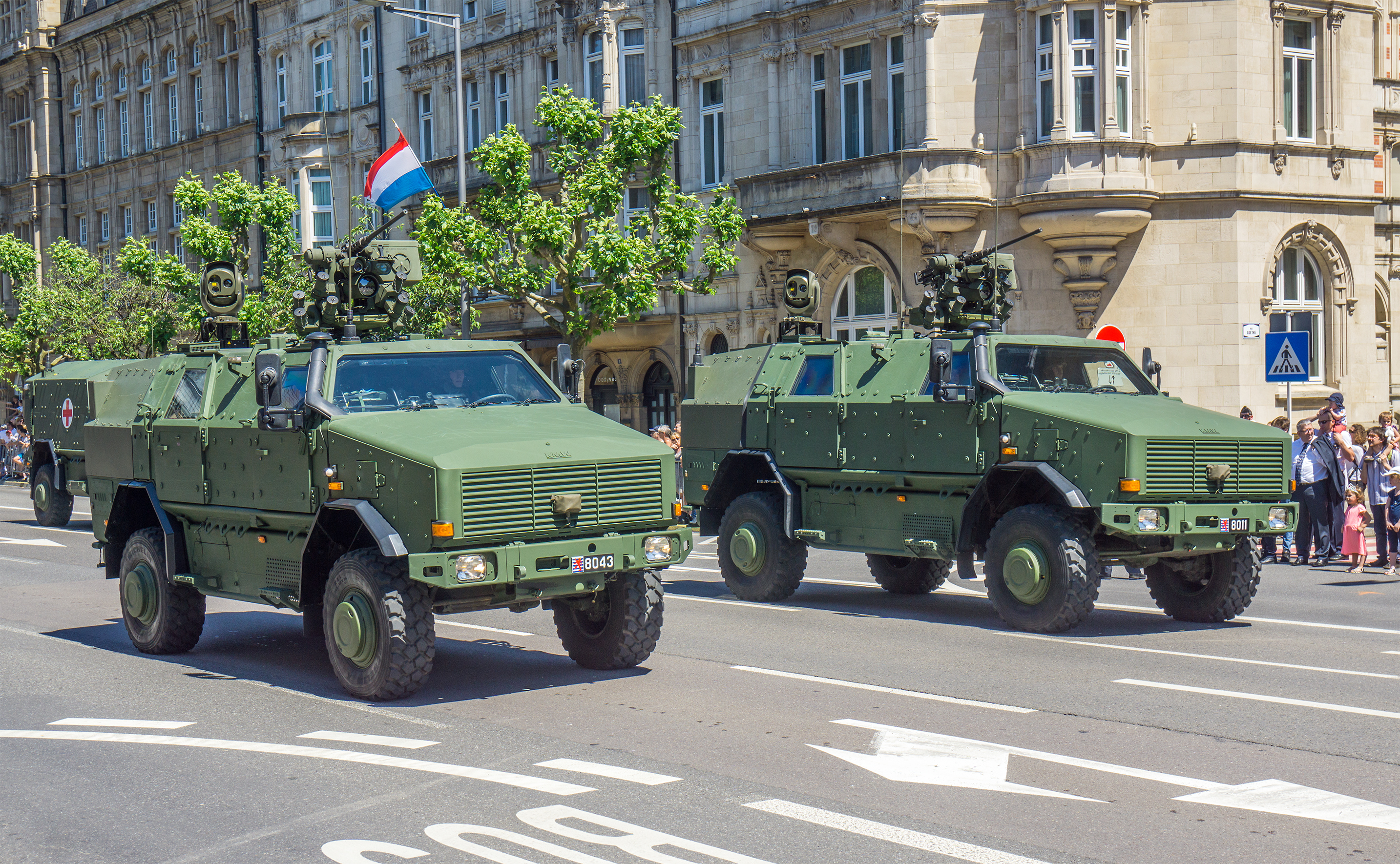 Military and civil parade on national holiday of Luxembourg